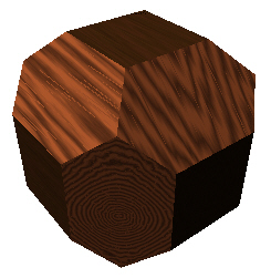 chamfered cube